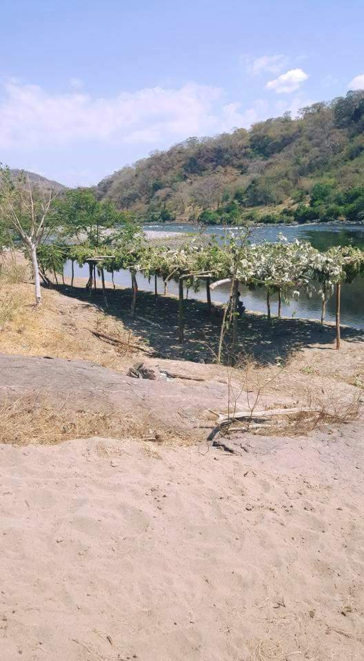 Río lempa puerto las flores en virginia ramada para los turistas